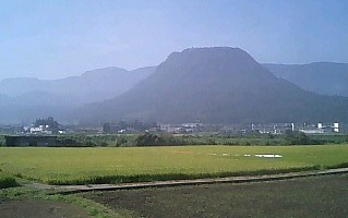 Mount Krikabu seen from the NbE, in Kusu town, Oita prefecture, Japan.